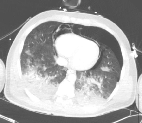 CT scan showing severe lung contusions. Caption reads, "CT scan, transversal view, showing pneumothorax, pneumomediastinum and pneumopericardium. Haematothorax is present at the time of scanning." Text of article reads, "CT scanning of the thorax, performed approximately 12 hours after admission, showed a pneumopericardium, as well as pneumomediastinum and bilateral pneumothorax (Figure 4). Severe lung contusion and haematothorax were also apparent on these images."